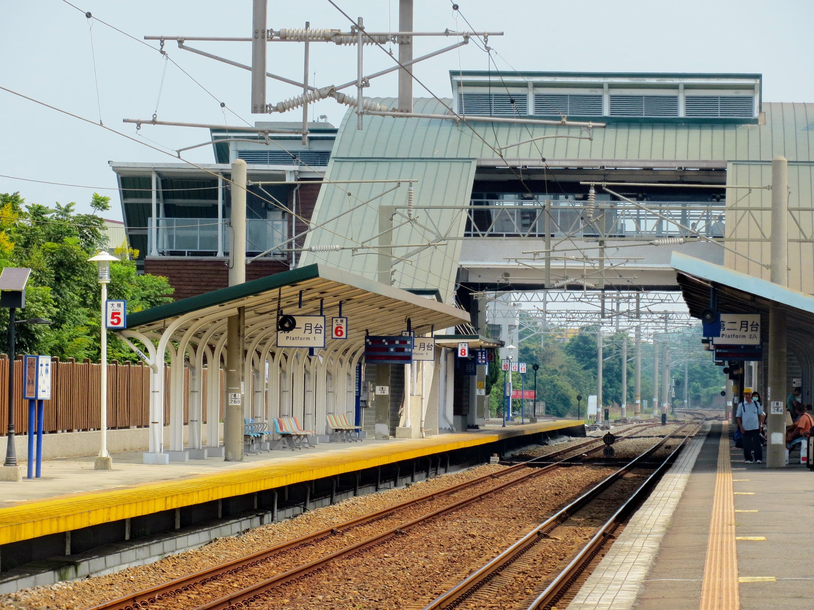 Platform 1 and 2A, TRA Dalin Station.